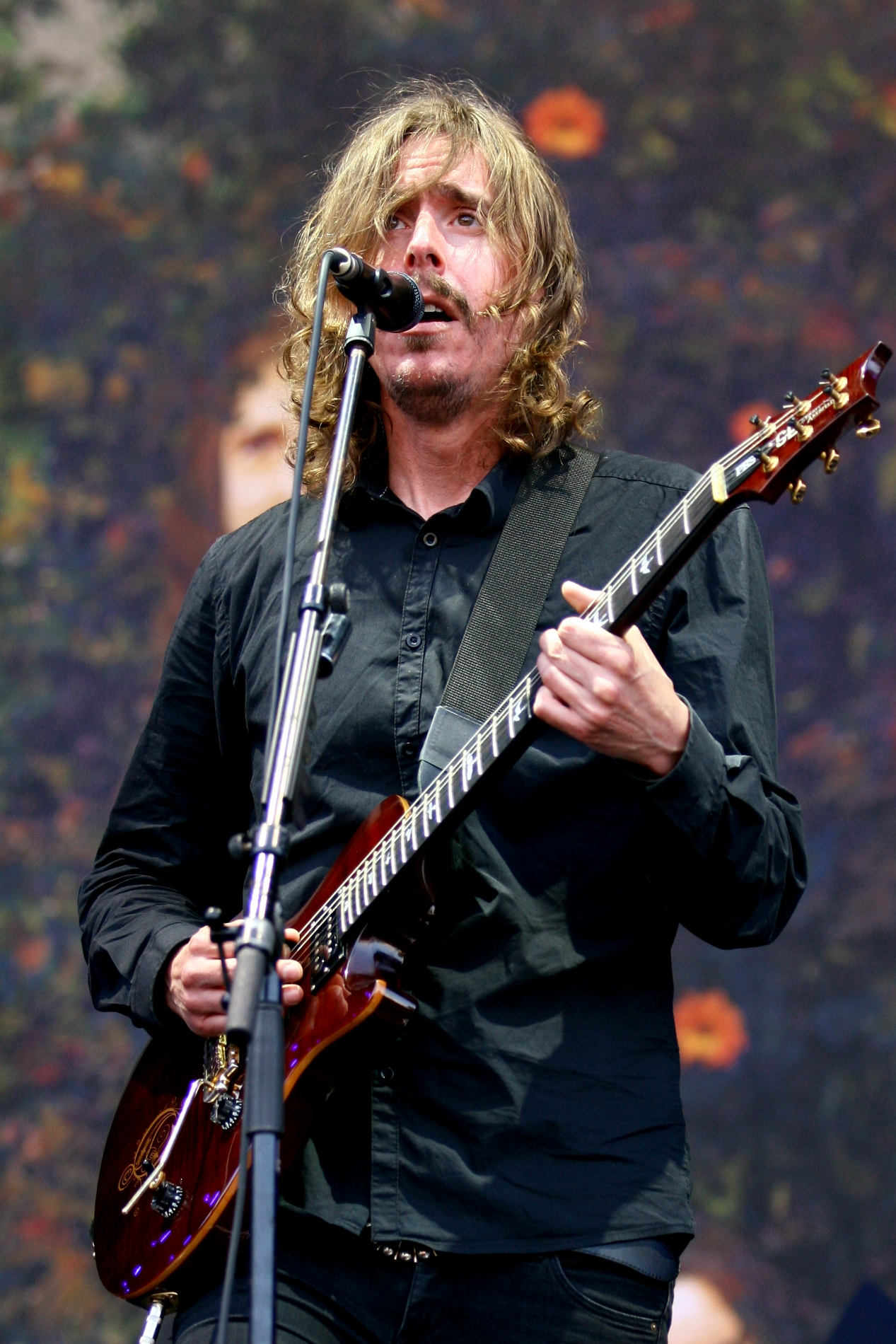 Mikael Åkerfeldt, singer of Opeth, Rock im Park Festival 2014. Festivalsommer This photo was created with the support of donations to Wikimedia Deutschland in the context of the CPB project "Festival Summer".